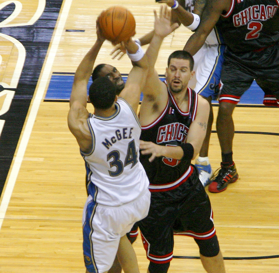 Brad Miller of the Chicago Bulls blocks JaVale McGee of the Washington Wizards.